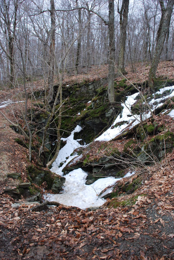 picture of the snow hole NY USA